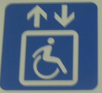 This photo was taken by this user for use in Wikipedia.